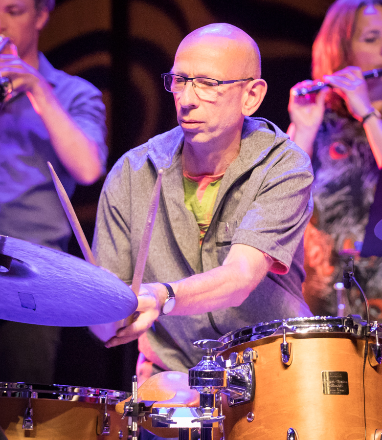 Tor Haugerud with Trondheim Jazz Orchestra, Eirik Hegdal and Joshua Redman at the stage of Kongsberg Musikkteater. The concert was part of Kongsberg Jazzfestival and took place on 06. July 2017. Solist: Joshua Redman (saxophone) Artistic director: Eirik Hegdal (saxophone) Trondheim Jazz Orchestra: Trine Knutsen (flute) Stig Førde Aarskog (clarinet) Eivind Lønning (trumpet) Stein Villanger (french horn) Daniel Weiseth Kjellesvik (french horn) Tor Haugerud (drums) Erik Johannessen (trombone) Ola Kvernberg (violin) Marianne Baudouin Lie (cello) Øyvind F. Engen (cello) Nils Olav Johansen (guitar) Ole Morten Vågan (double bass)